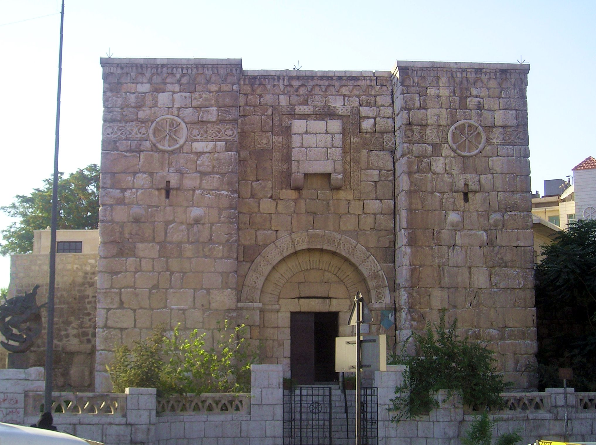 Damascus, Syria - Bab Kisan, now Greek Catholic Chapel of St. Paul, where by legend disciples lowered Saint Paul in a basket from ramparts and thus helped him escape from Damascus.